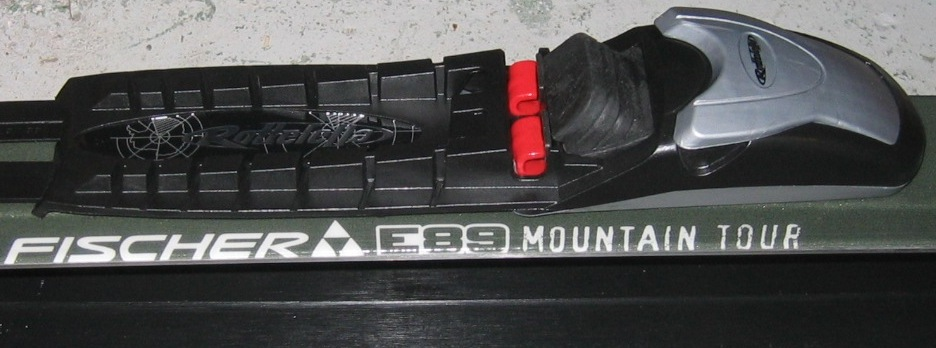 New Nordic Norm (NNN) ski binding from 2008